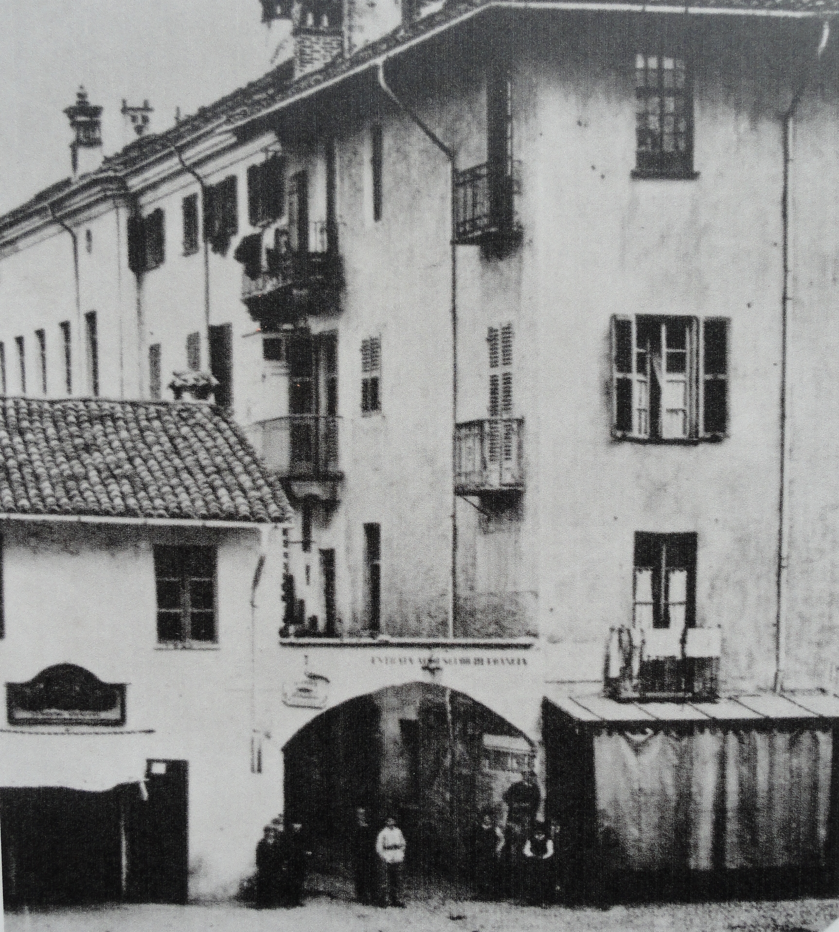 Main entrance of the ghetto in Saluzzo (Italy); Street leading to the synagogue